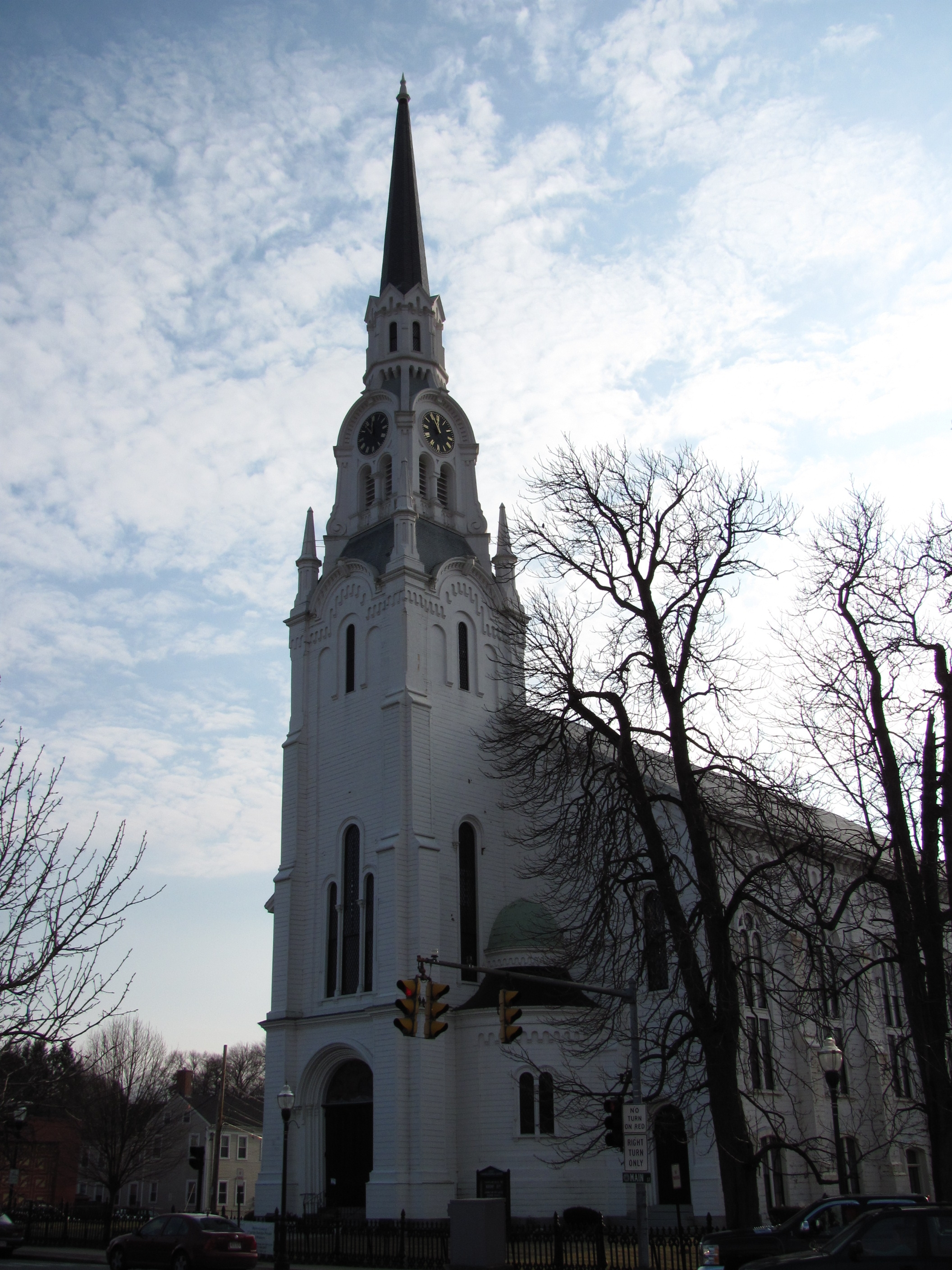 First Congregational Church, Woburn Massachusetts